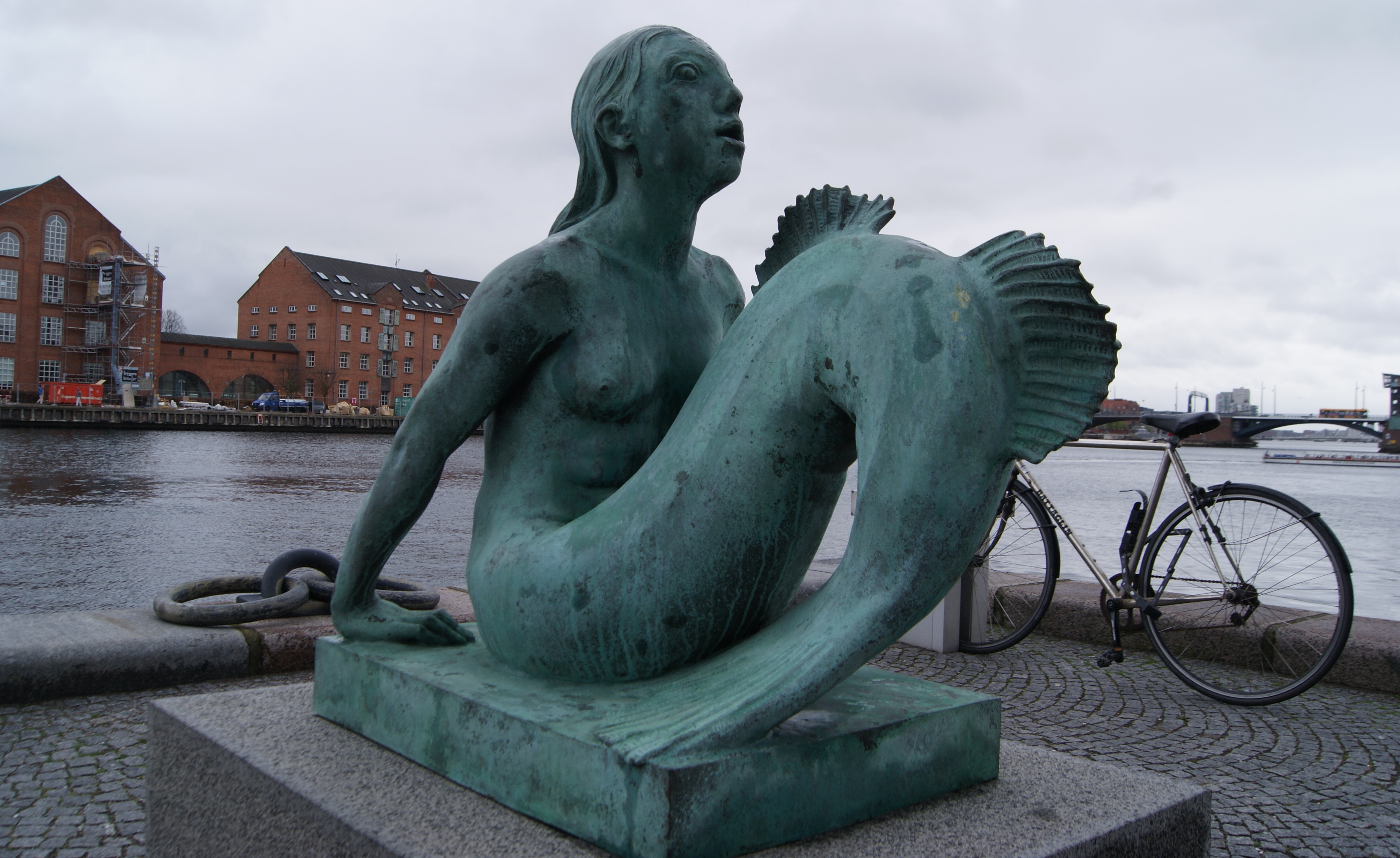 Mermaid statue at Christians Brygge in central Copenhagen, Denmark